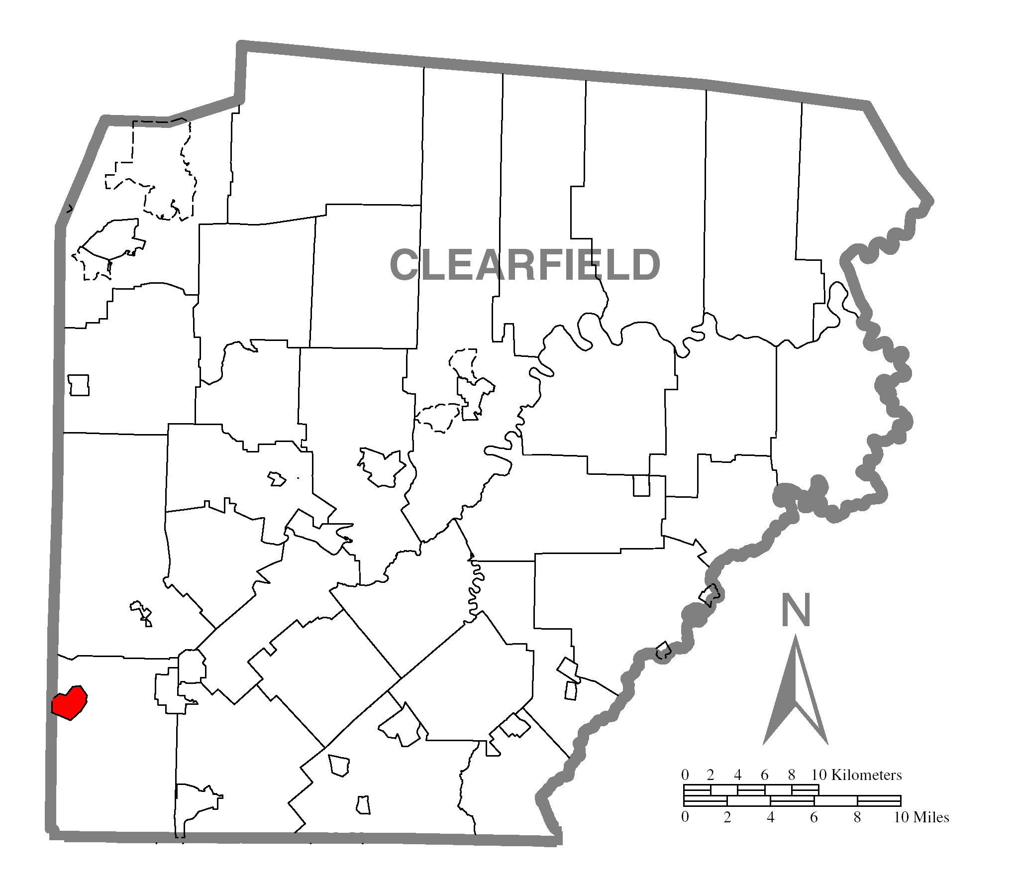 A map of Clearfield County showing Burnside, Pennsylvania (alternate) highlighted on the map.